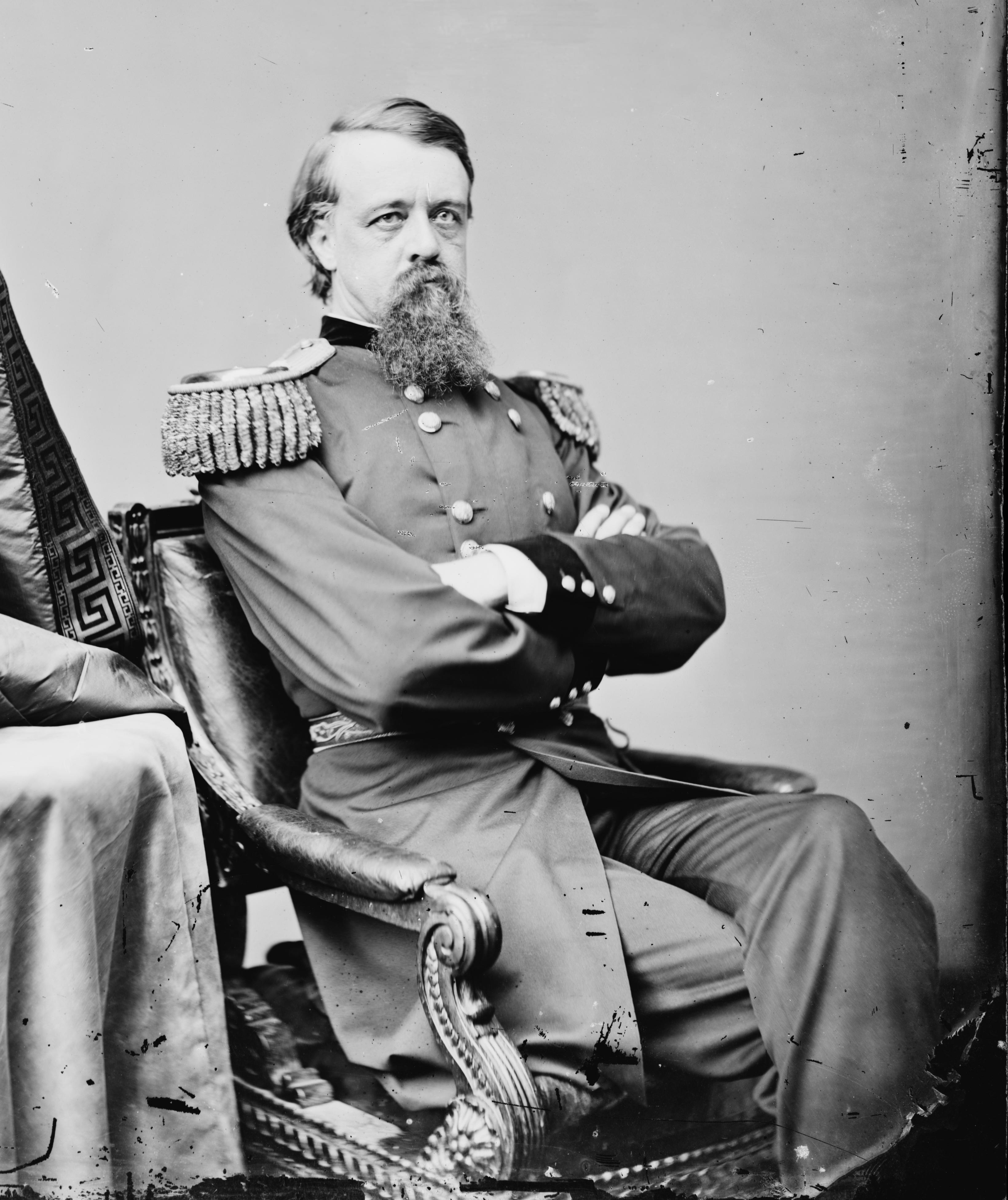 Alfred Terry. Library of Congress description: "Gen. Alfred H. Terry, U.S.A."